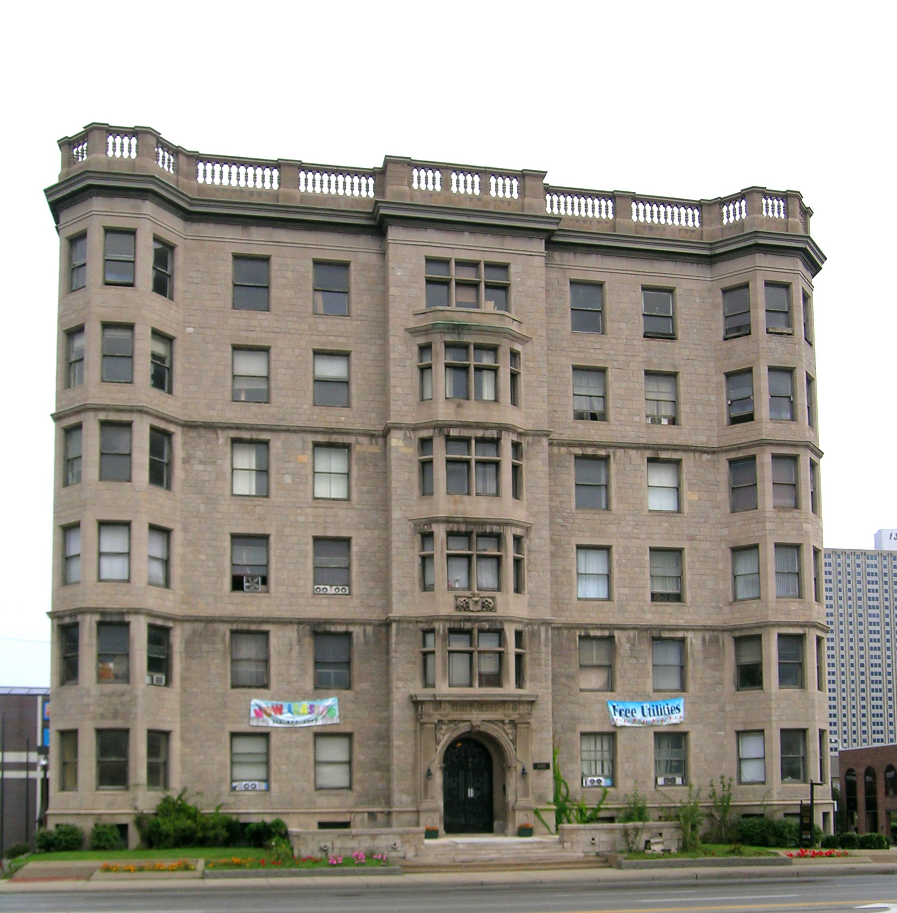 The Palms Apartments on Jefferson Ave, Detroit MI